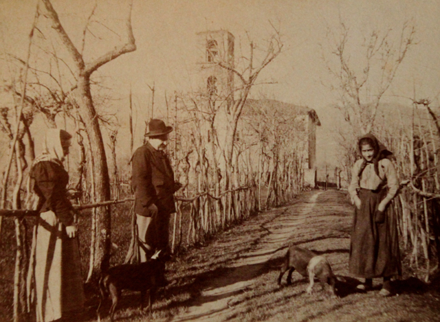 Il poeta nel giardino